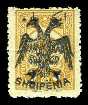 Post stamp of independent Albania